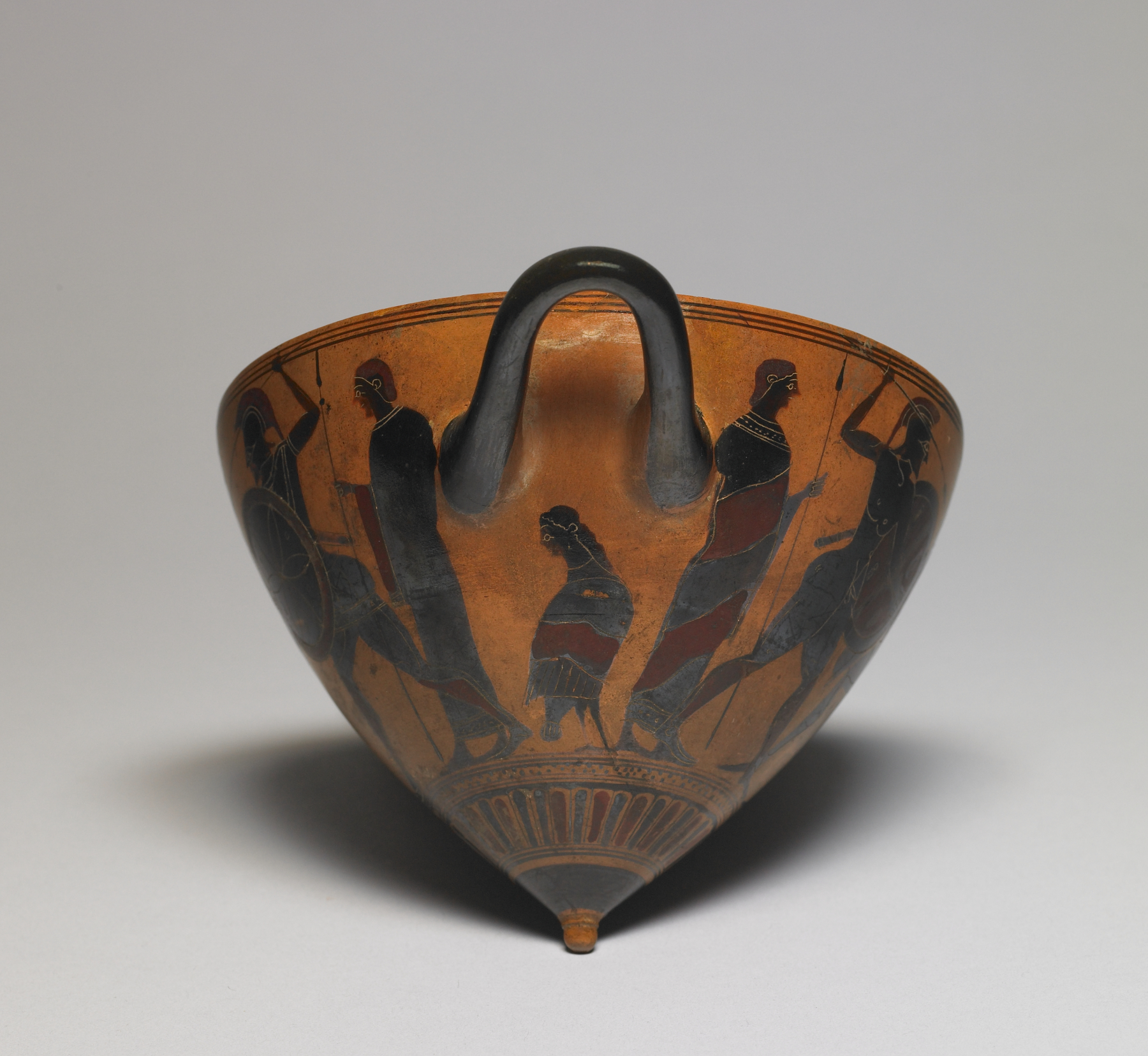 This shape of drinking-cup is called a "mastos" and resembles a woman's breast. On the front, a soldier whose nudity signifies heroic status advances against two warriors dressed in short tunics; two heralds watch from either side. On the back, a nude warrior confronts a clothed one in a similar scene. Beneath the horizontal handle stands a siren, a mythical creature with a woman's head and a bird's body, whose powers included knowledge of the outcome of battles.